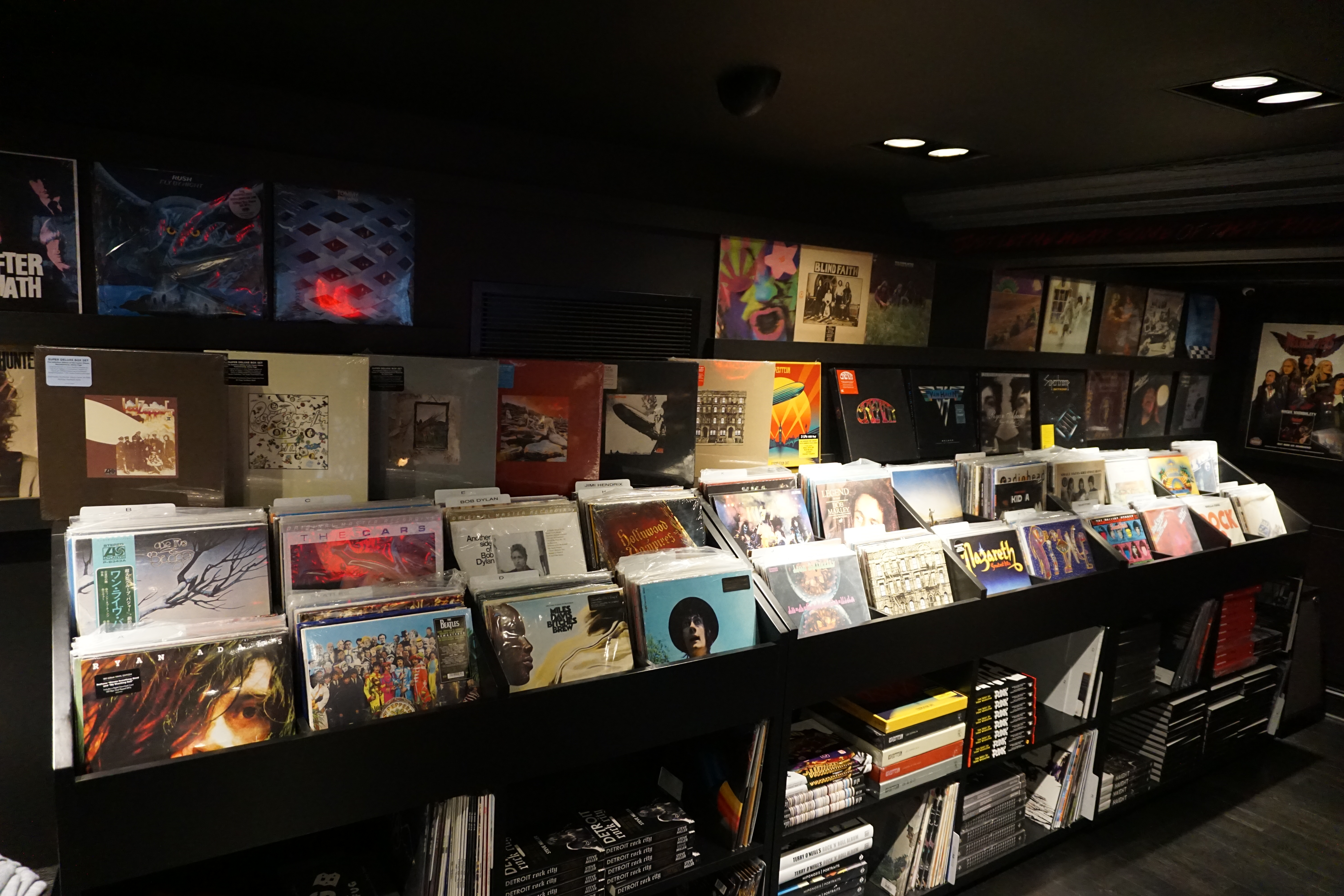 The interior of the John Varvatos store in Detroit, Michigan (United States).